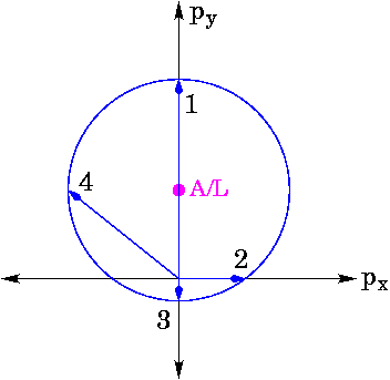 This plot shows that the momentum vector traces out a circle for a point particle moving under an inverse-square central force (the Kepler problem). Such a trace used to be called a "hodograph" in the 19th century. I made this Figure on 5 November 2006 using Xfig, borrowing the vectors from my related figure Image:Laplace_Runge_Lenz_vector.png to make them match. I hereby release this figure under the GFDL.